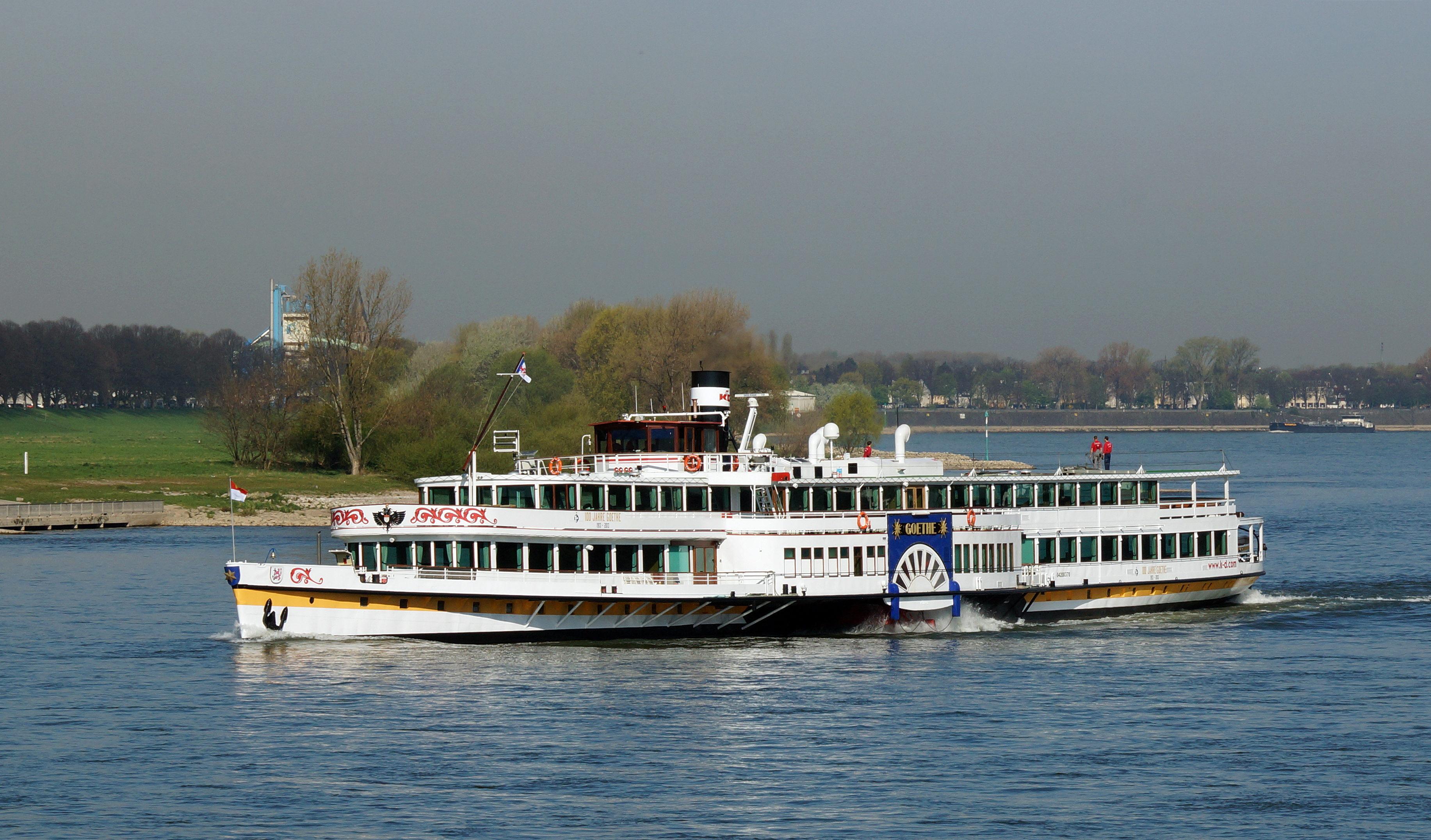 Paddle steamer Goethe on tour in Cologne.